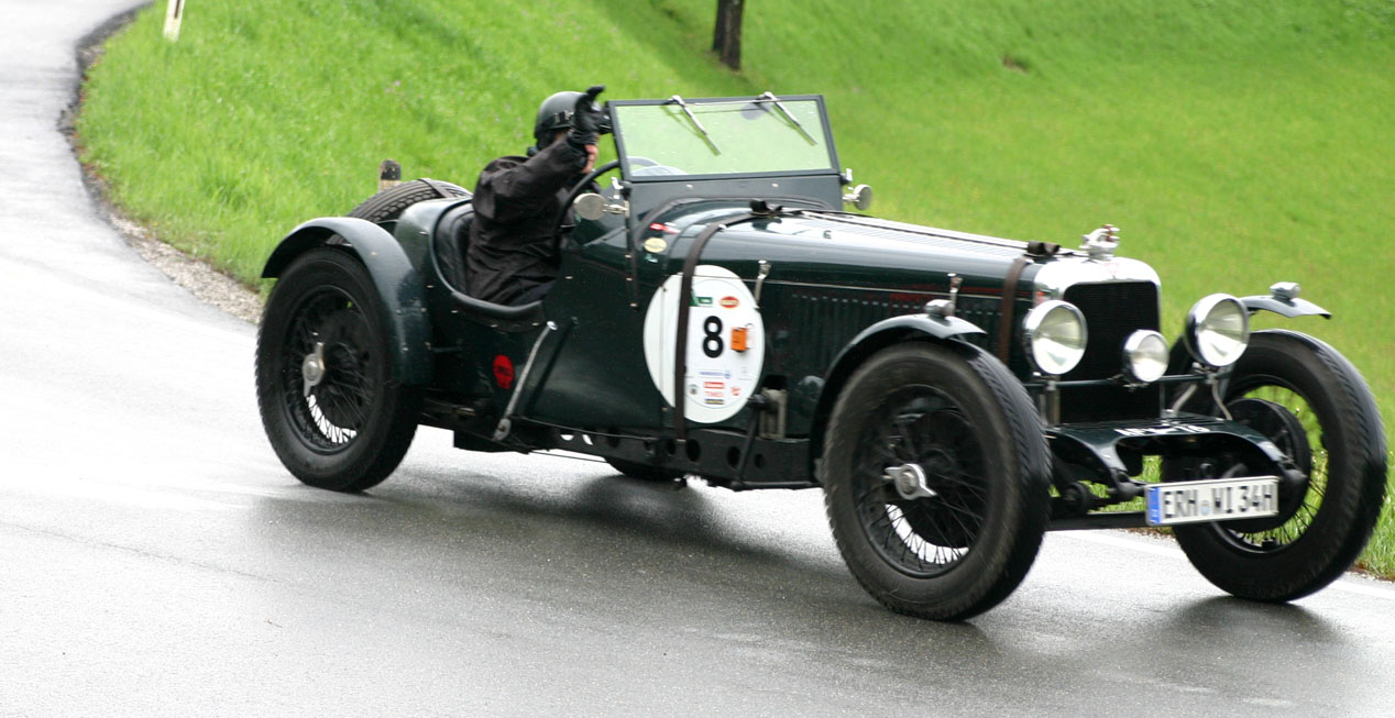 Alvis Silver Eagle, PS / ccm / BJ : 70 / 2300 / 1934